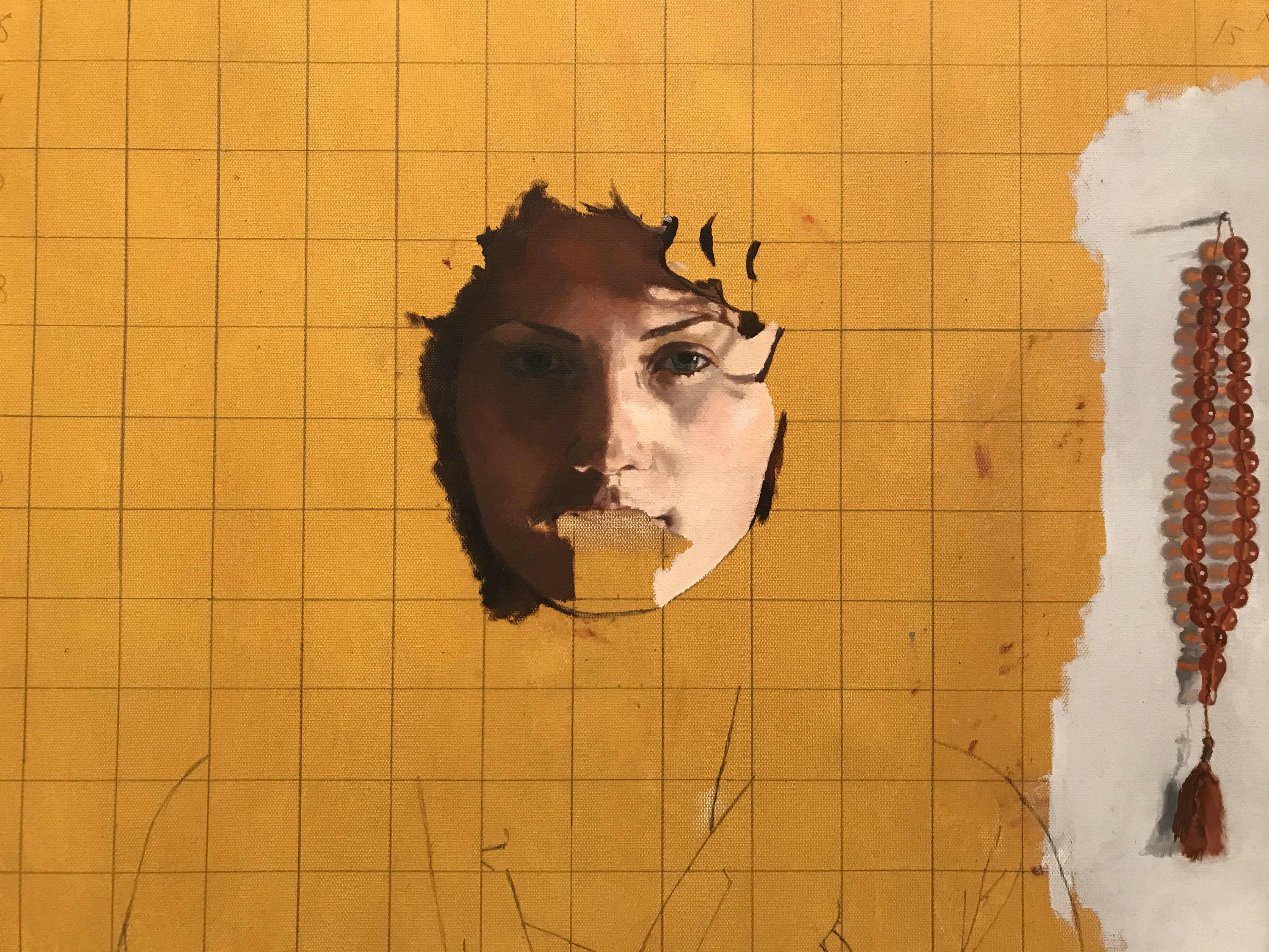 Fatma Shanan self-portrait from Tel Aviv Museum of Art exhibition; catalogue: Self-Portrait with Misbaha, 2010, oil on canvas, 70x60, Dubi Shiff Art Collection, Tel Aviv.